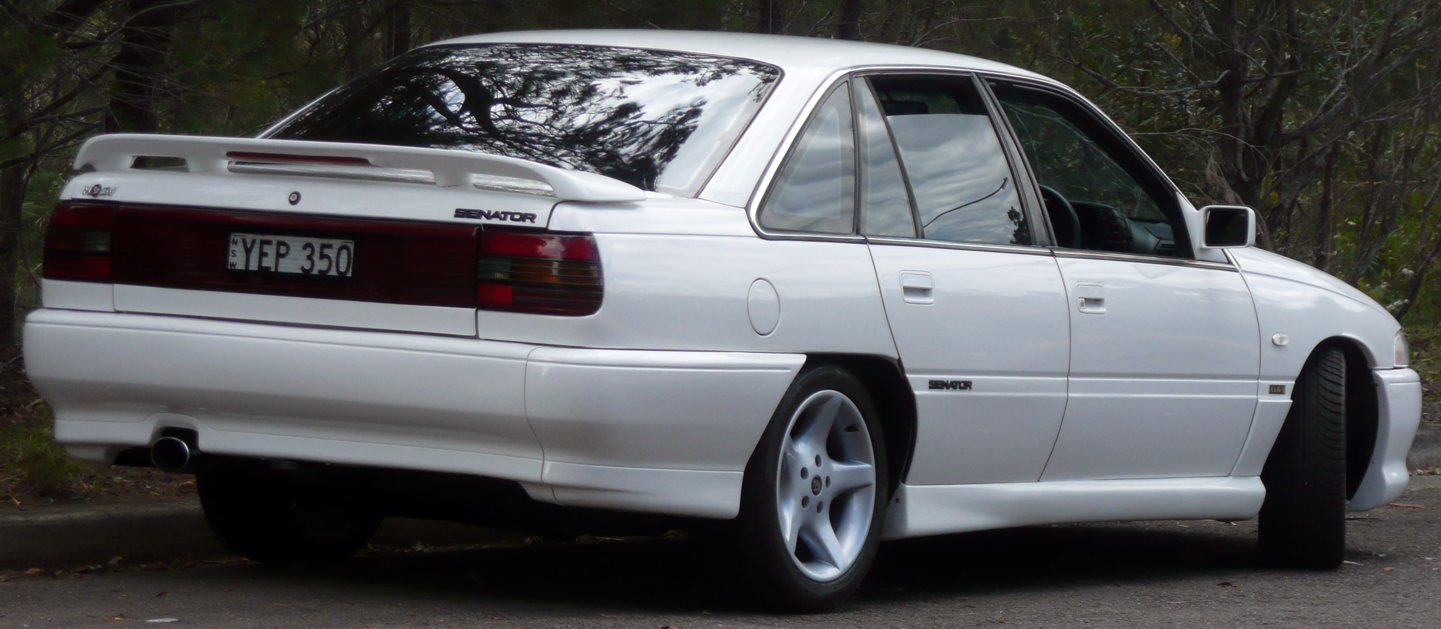 1992–1993 HSV Senator (VP) sedan. Photographed in New South Wales, Australia.